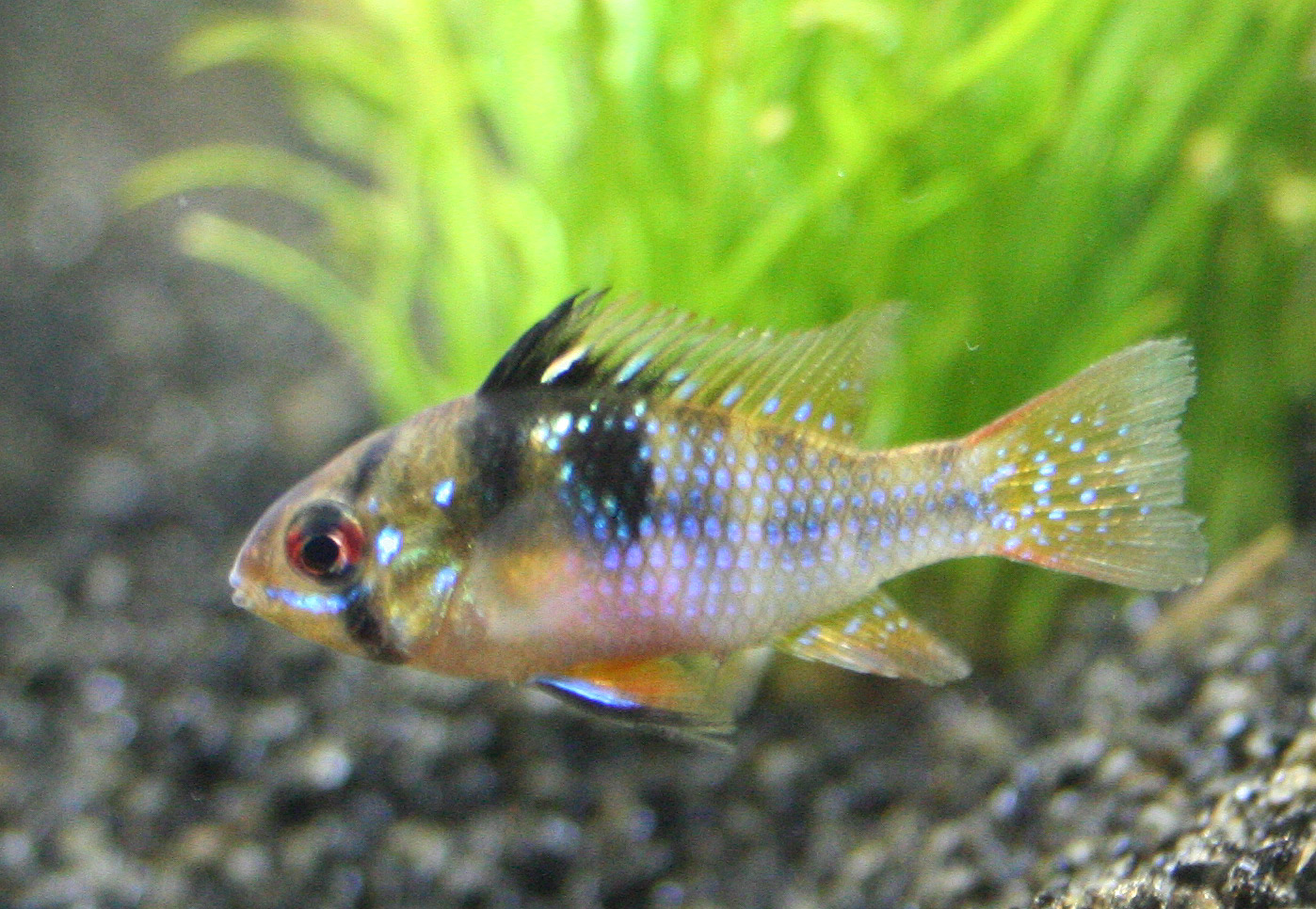 A ram cichlid in a private aquarium.